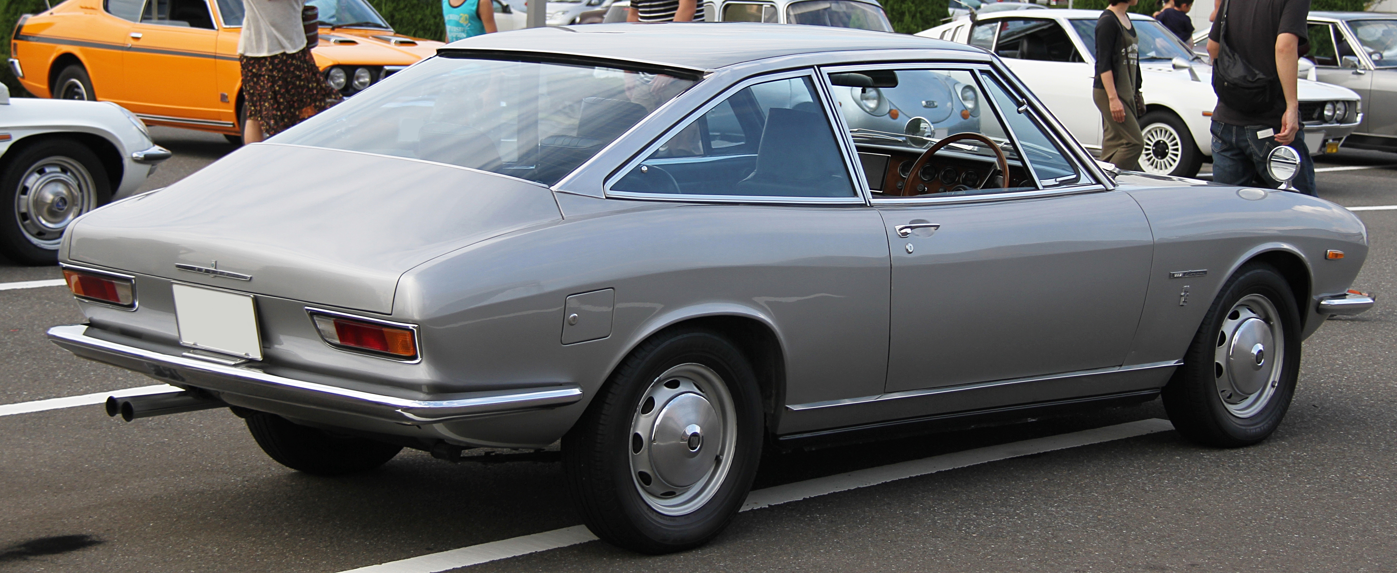 Isuzu 117 Coupe